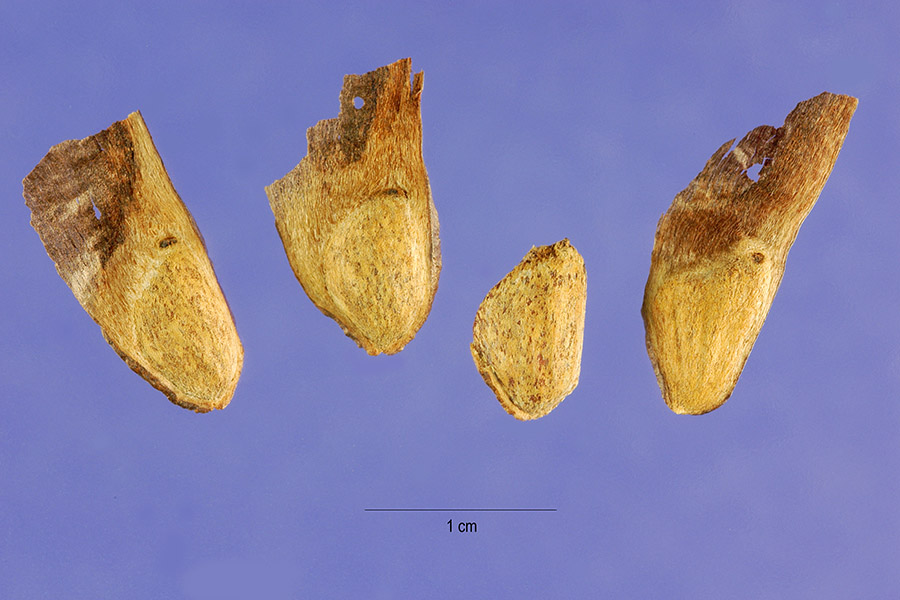 Seeds of Longleaf Pine (Pinus palustris)